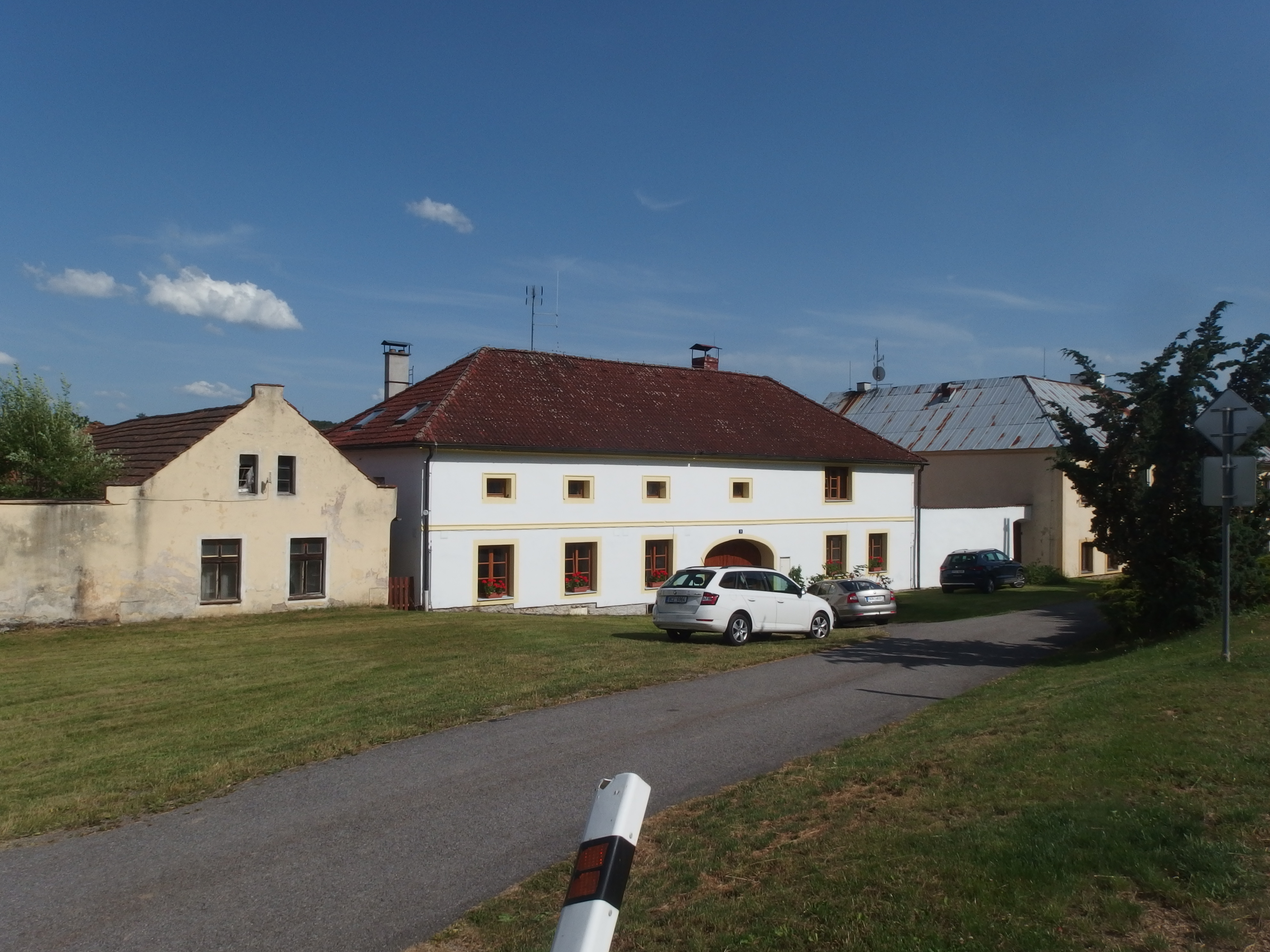 Mirkovice, Český Krumlov District, Czechia.